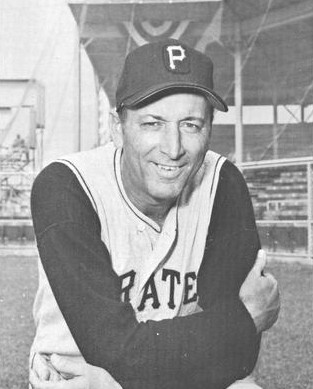 Professional baseball manager Harry Walker